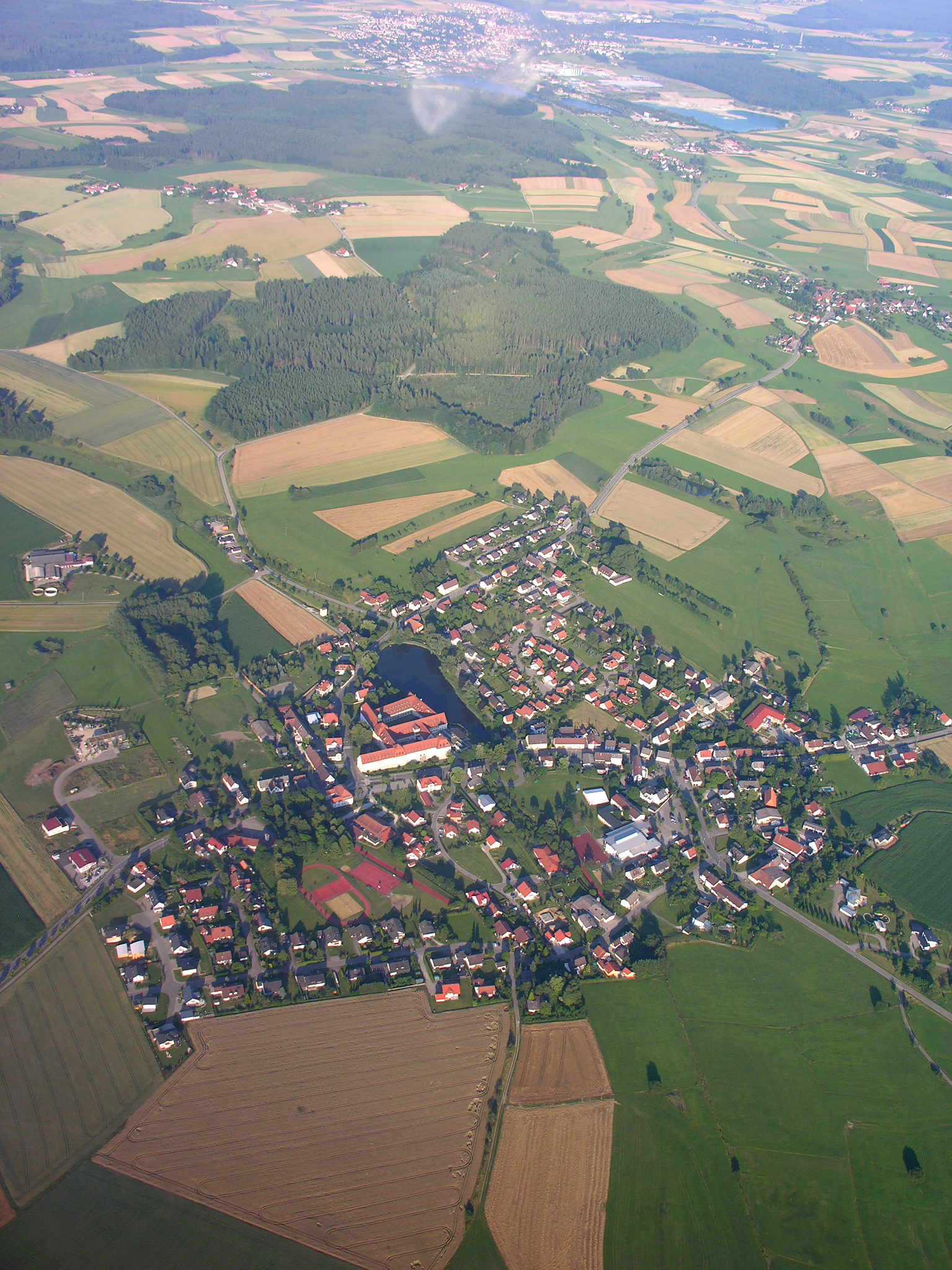 Aerial View of Wald